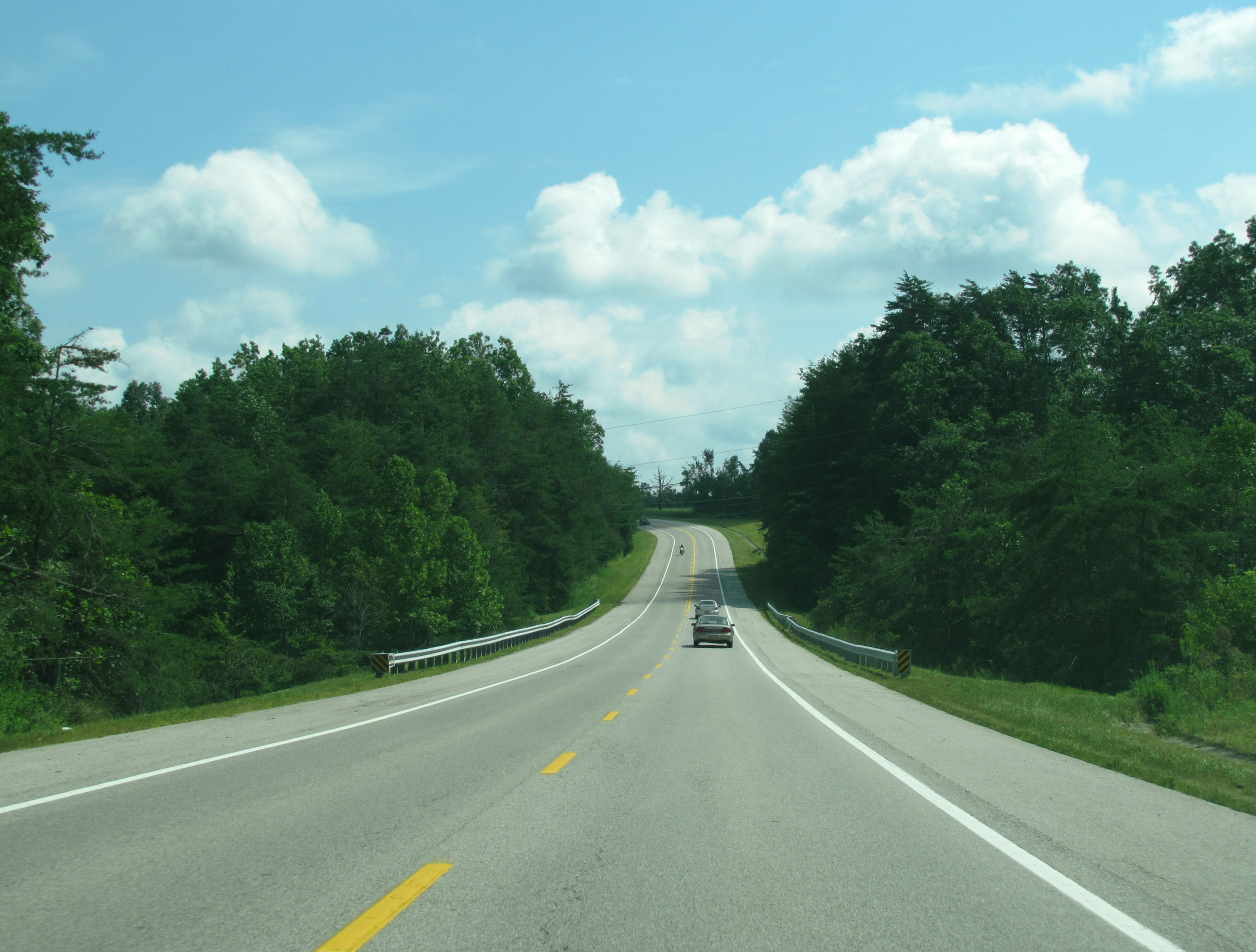 Tennessee State Route 62 in eastern Putnam County, Tennessee, United States.